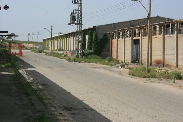 Industry in Israel